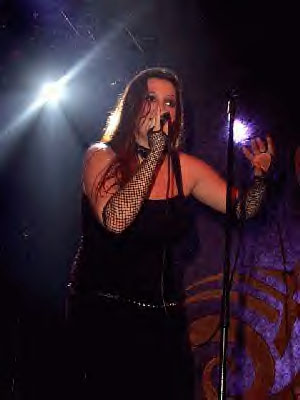 Flowing Tears live 2004